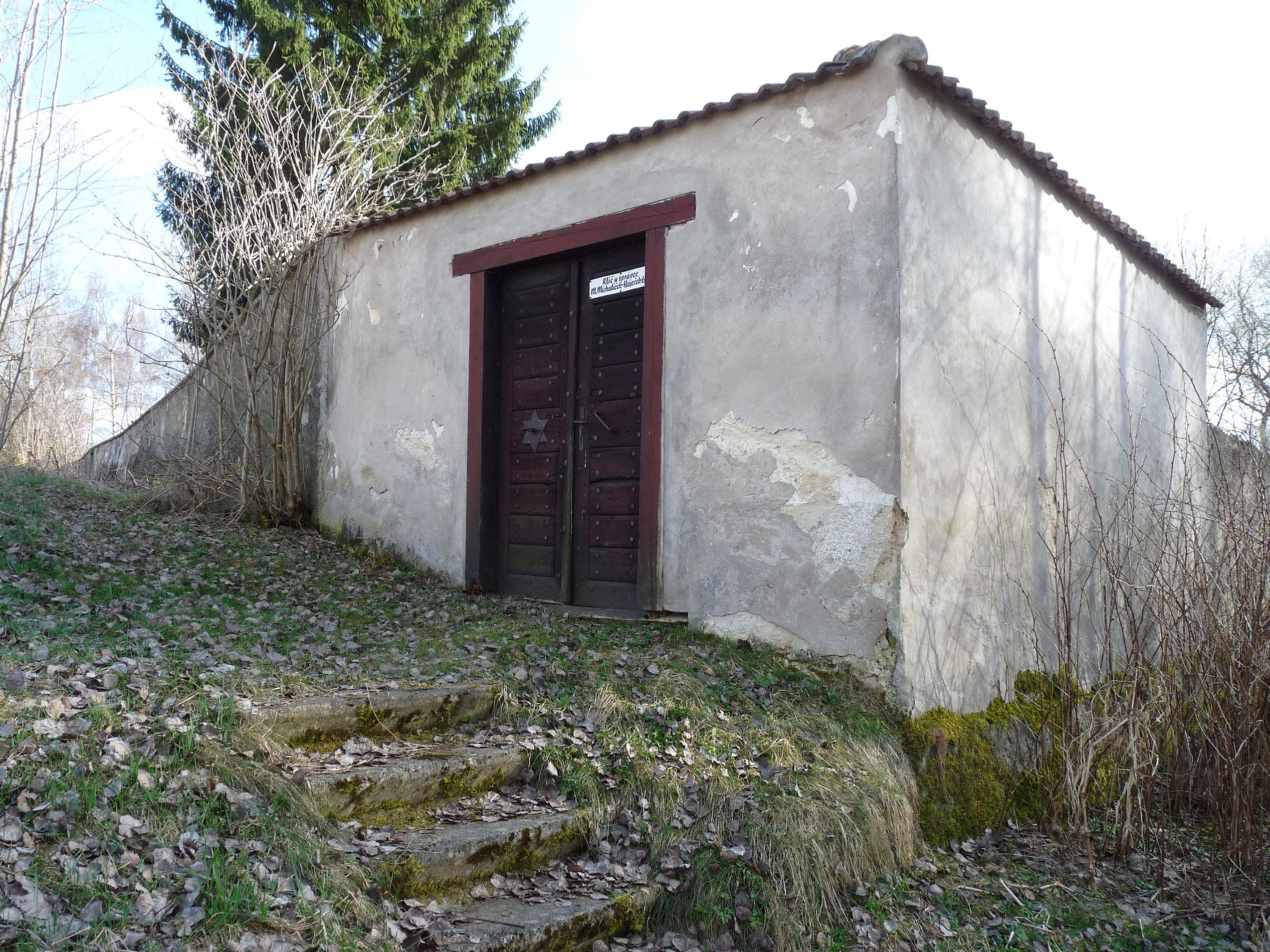 Entrance to the Jewish cemetery at the town of Kardašova Řečice, Jindřichův Hradec District, Czech Republic